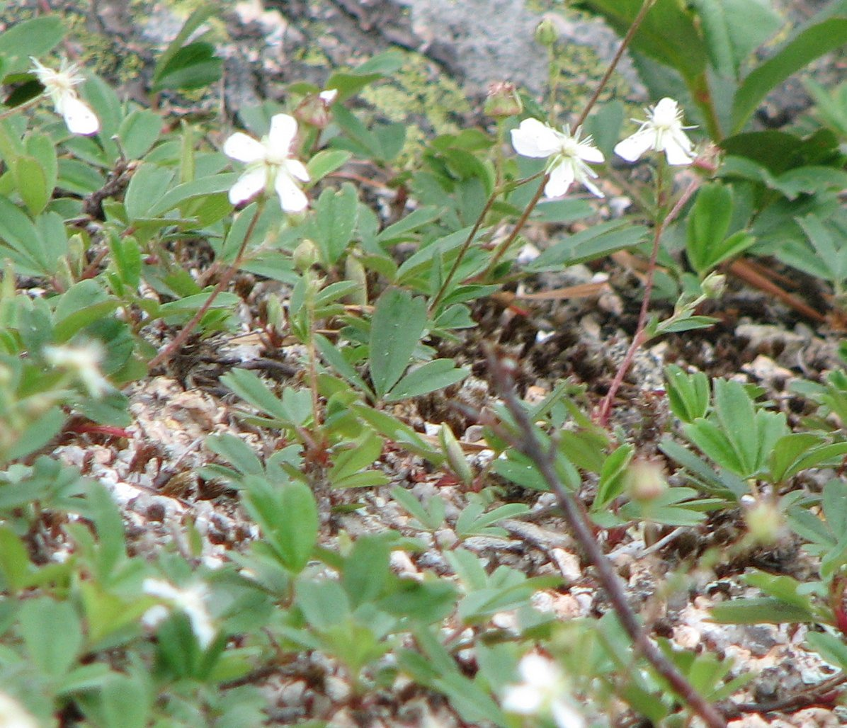 A patch of Sibbaldia tridentata en (syn. Sibbaldiopsis tridentata) growing on Gorham Mountain, Acadia National Park, Maine